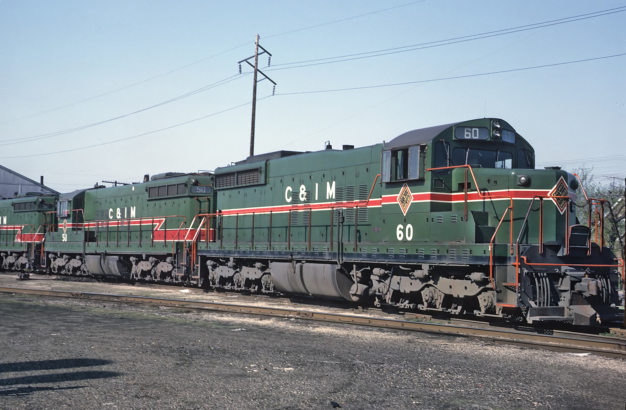 Roger Puta photograph